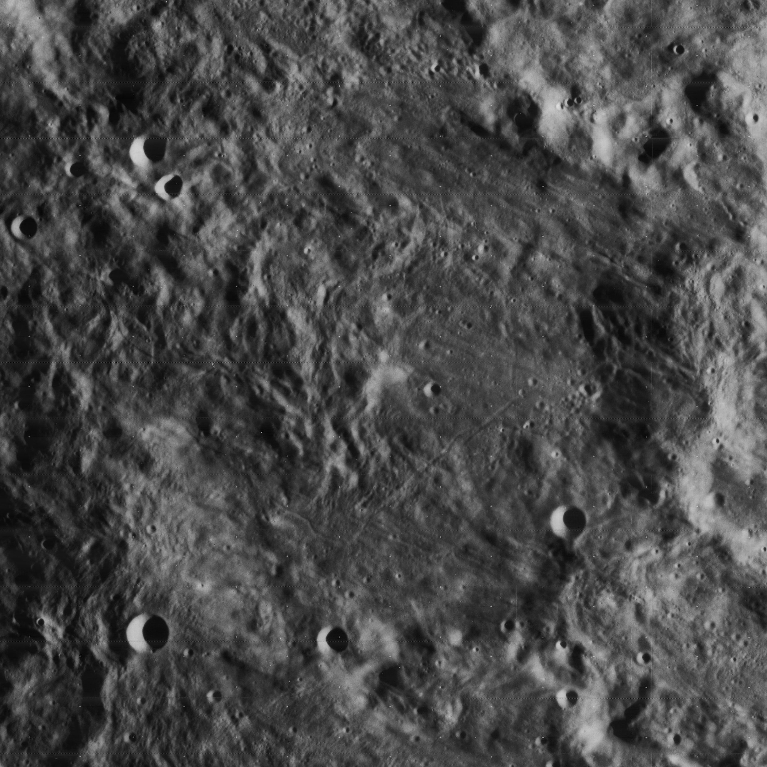 Lamarck D crater, west of Lamarck, on the moon.